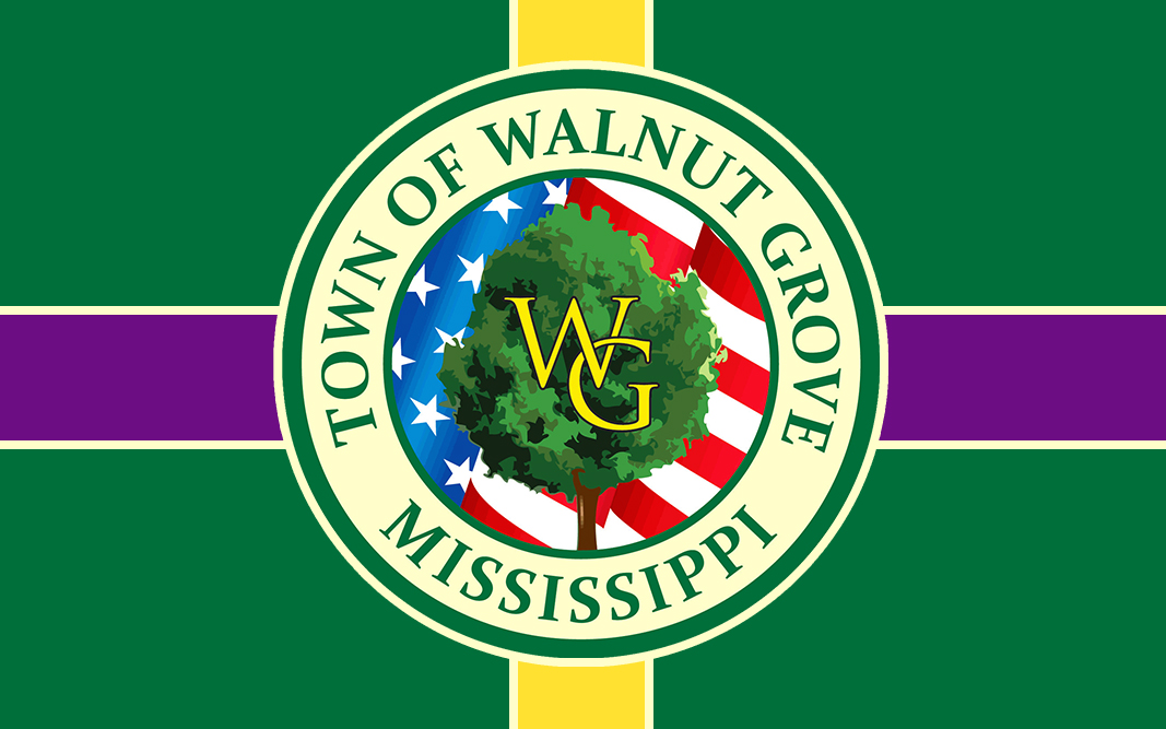 Town Flag Adopted 2012